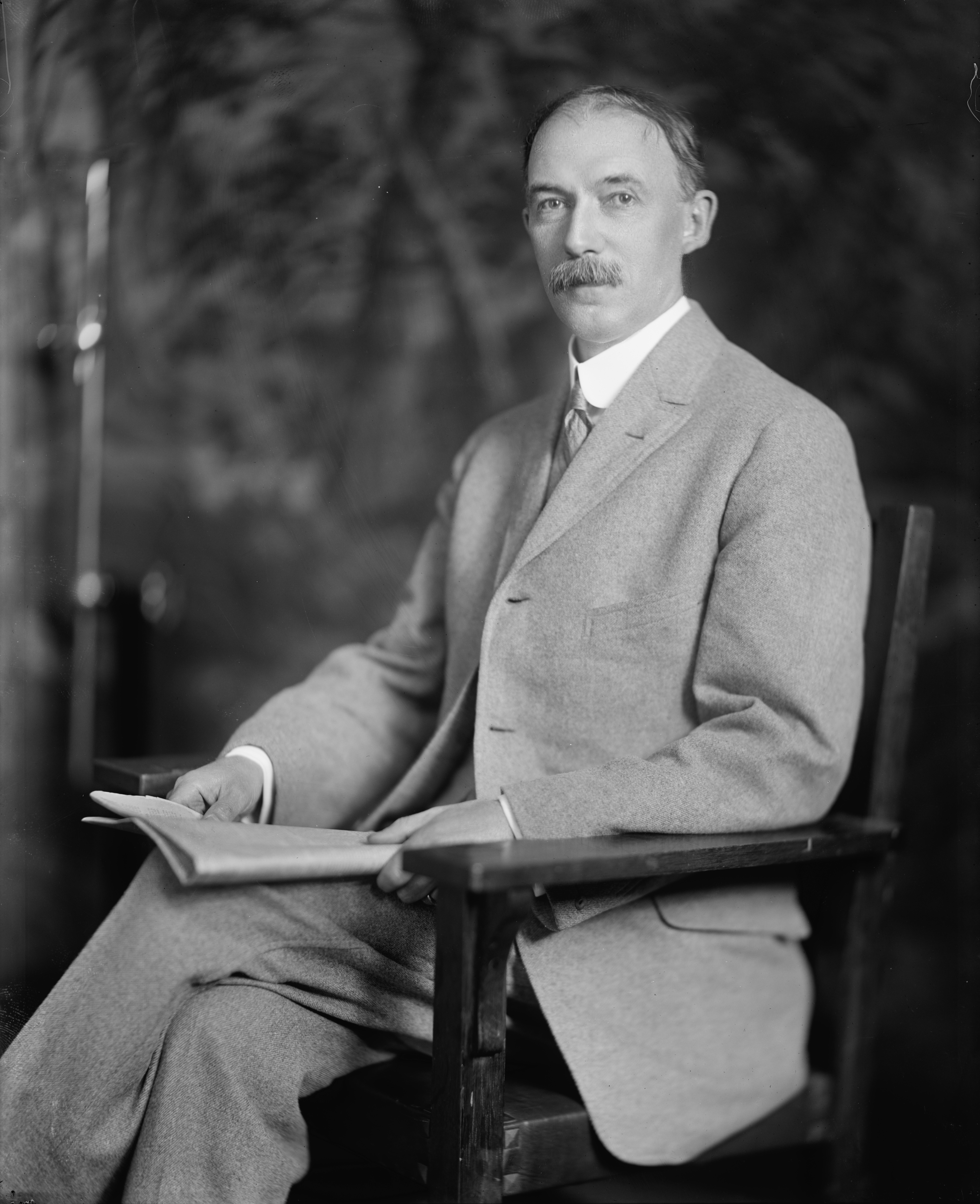 Edmund Platt, Congressman from New York and Vice-Chairman of the Federal Reserve.